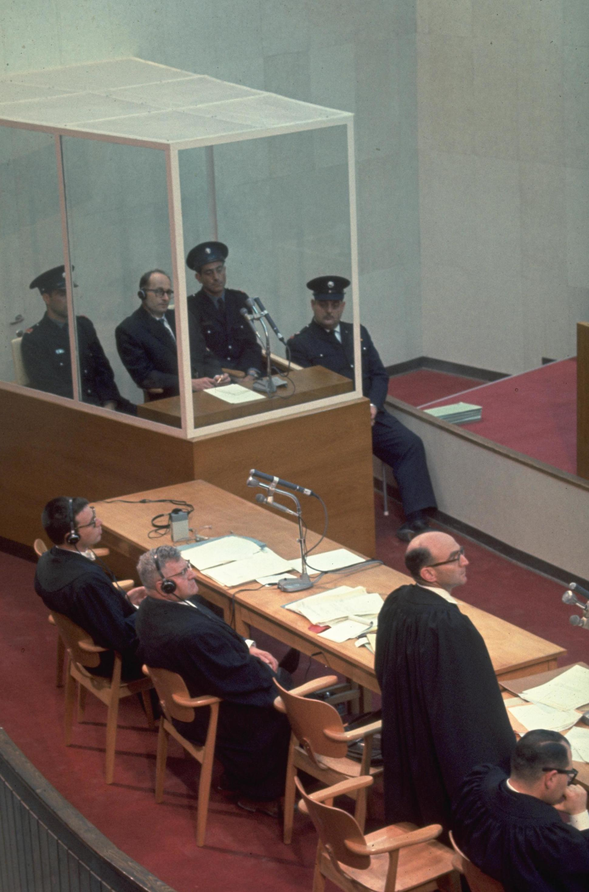 Eichman Trial, Jerusalem 1961